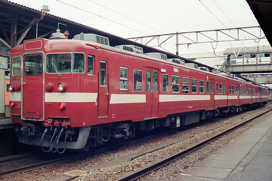 A JNR 413 series EMU at Toyama Station in original livery